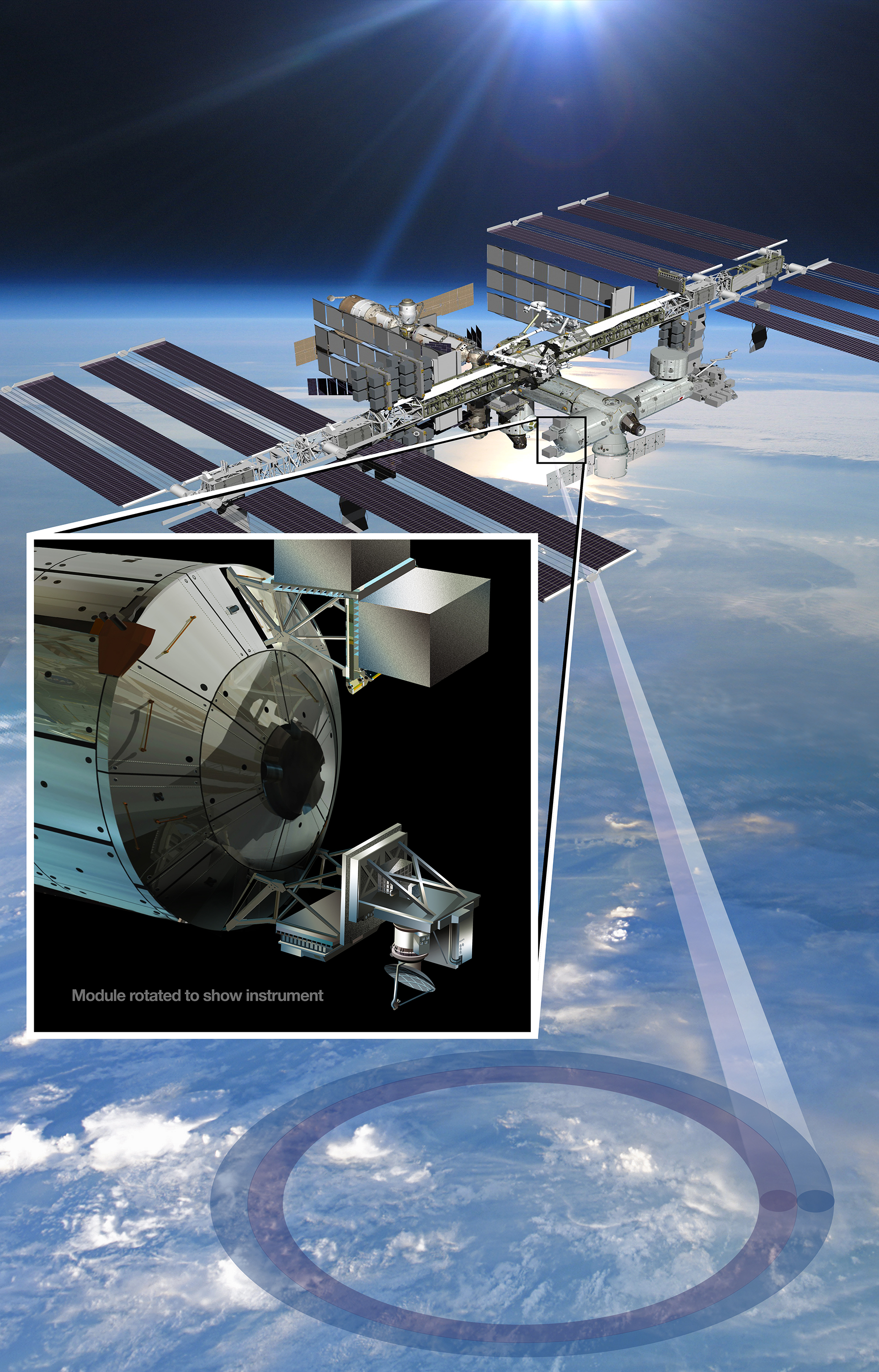 An artist's concept showing the International Space Station-RapidScat instrument against the station.